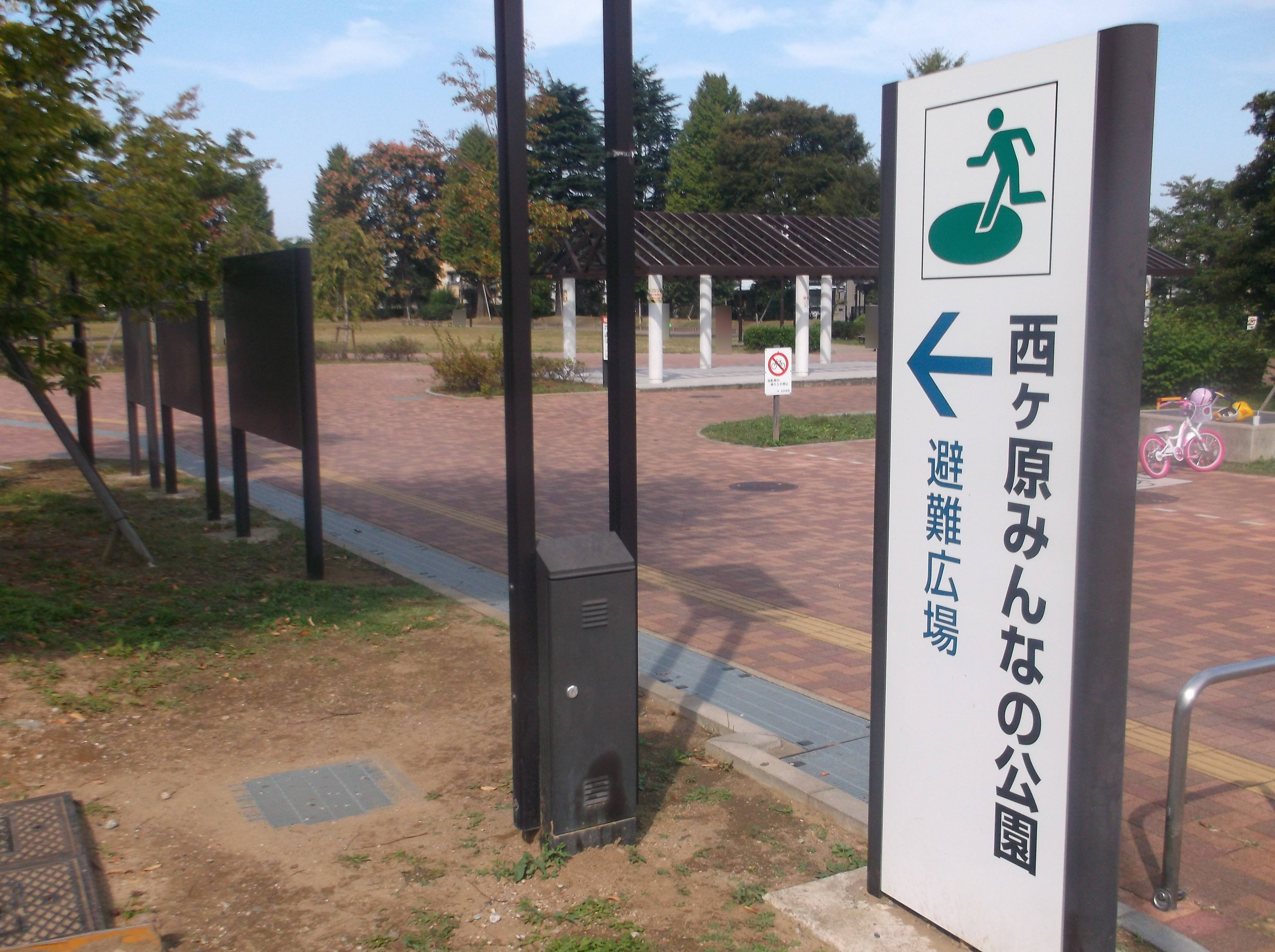 A photo of an entrance of "Nishigahara Minna no Park",Nishigahara,Kita-ku,Tokyo,Japan.